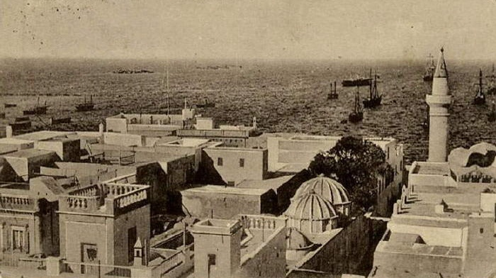 The Old Medina quarter in Tripoli, Libya ( Dargoth's mosque and Othman bacha's school appears in this picture. )